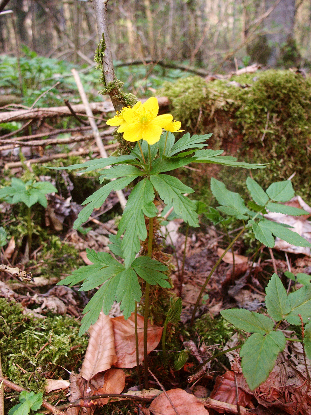 Anemone ranunculoides, Hohenloher Land, Germany